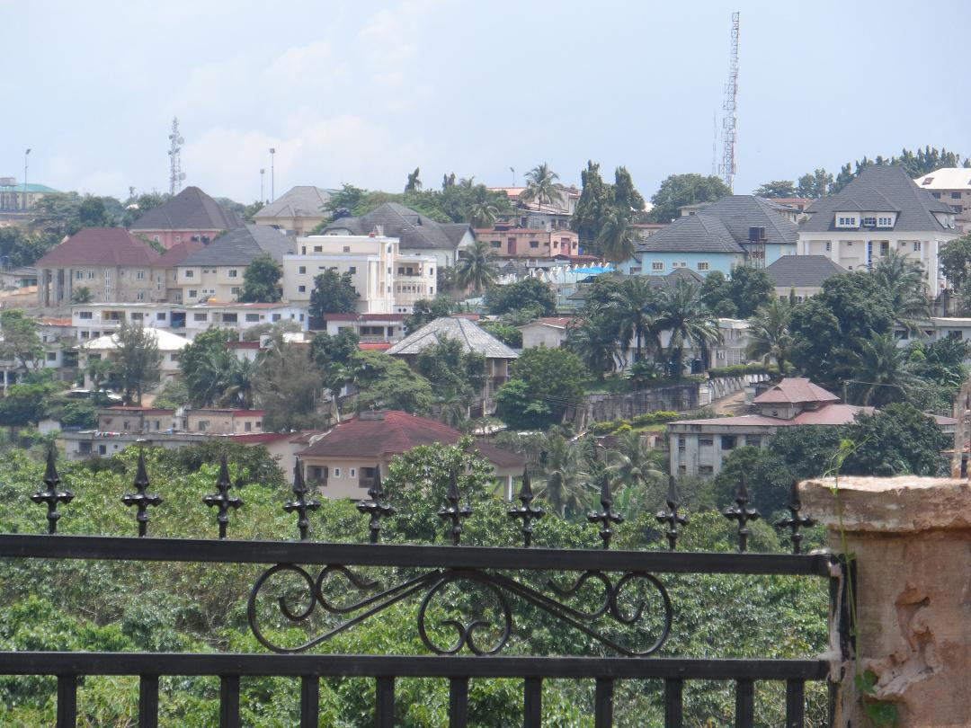 the residential neighborhood of Onitsha GRA